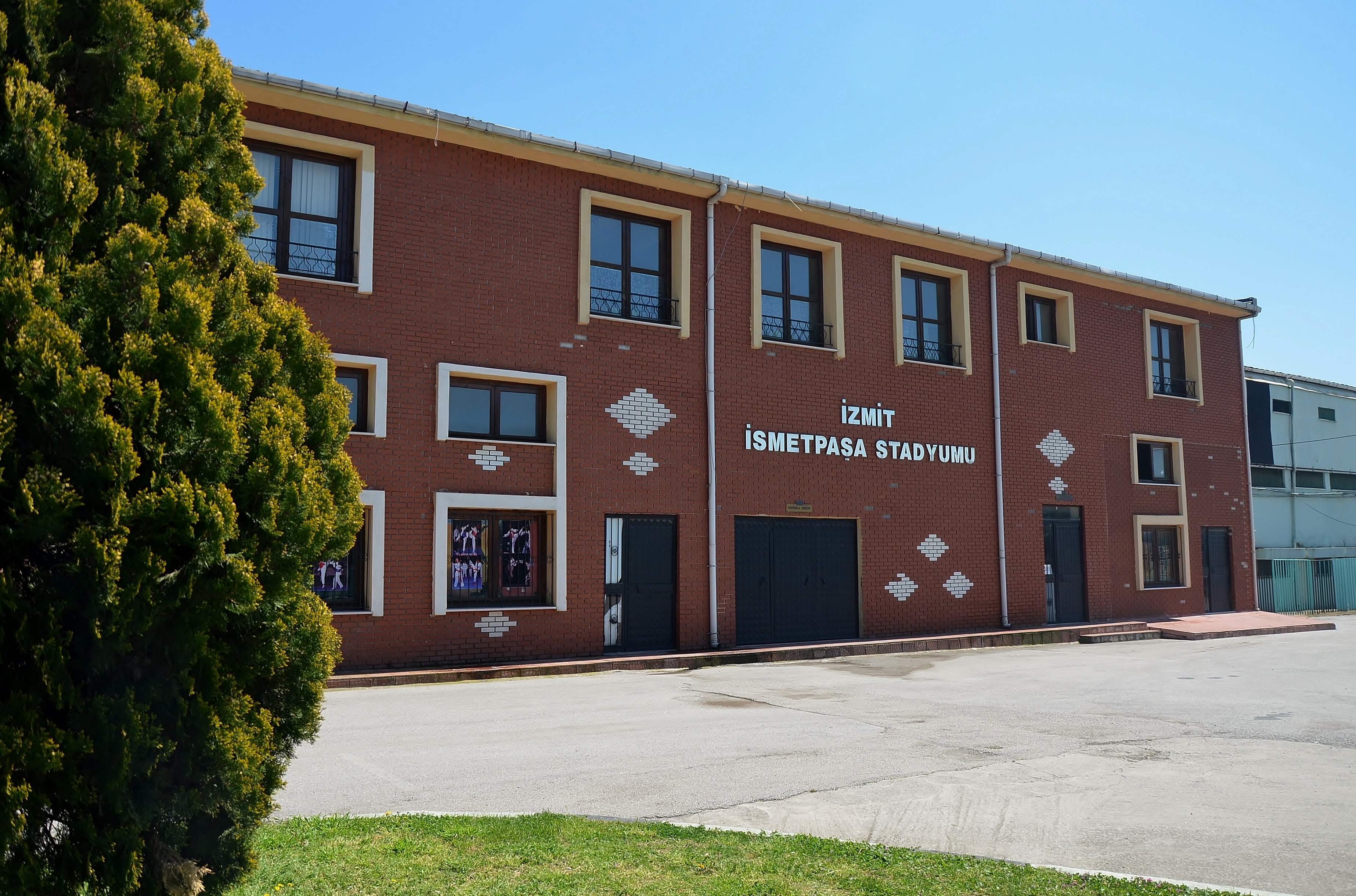 İzmit İsmetpaşa Stadium in Derince, Kocaeli Province Turkey